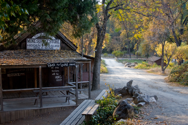 Street in Columbia — within Columbia State Historic Park, California.